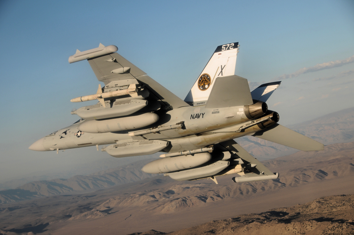 A U.S. Navy Boeing EA-18G Growler (BuNo 166856) of test and evaluation squadron VX-9 Vampires flies over California (USA), in August 2008.